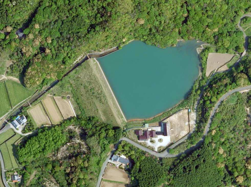 Benjo Dam.